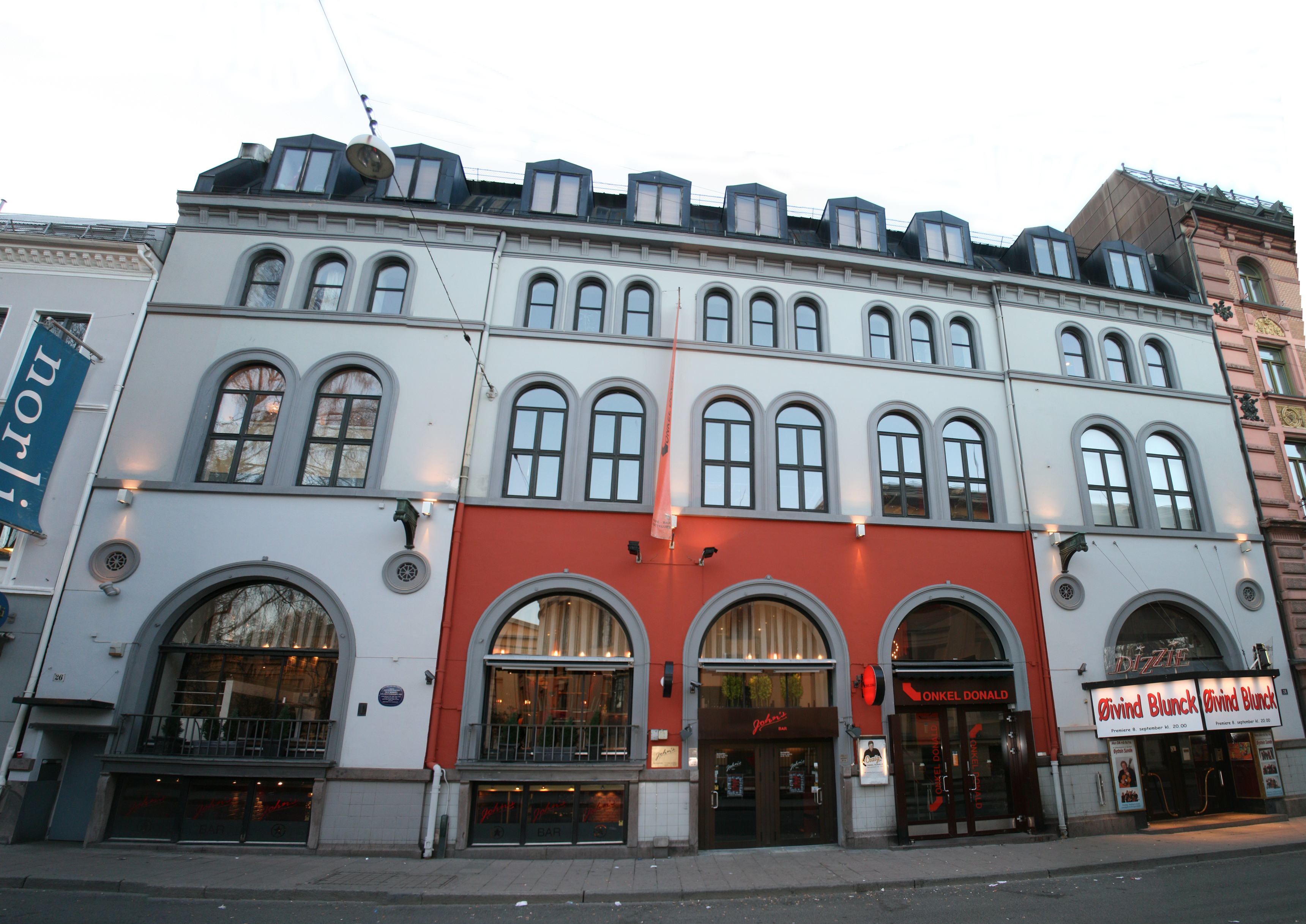 Universitetsgata 26 in Oslo